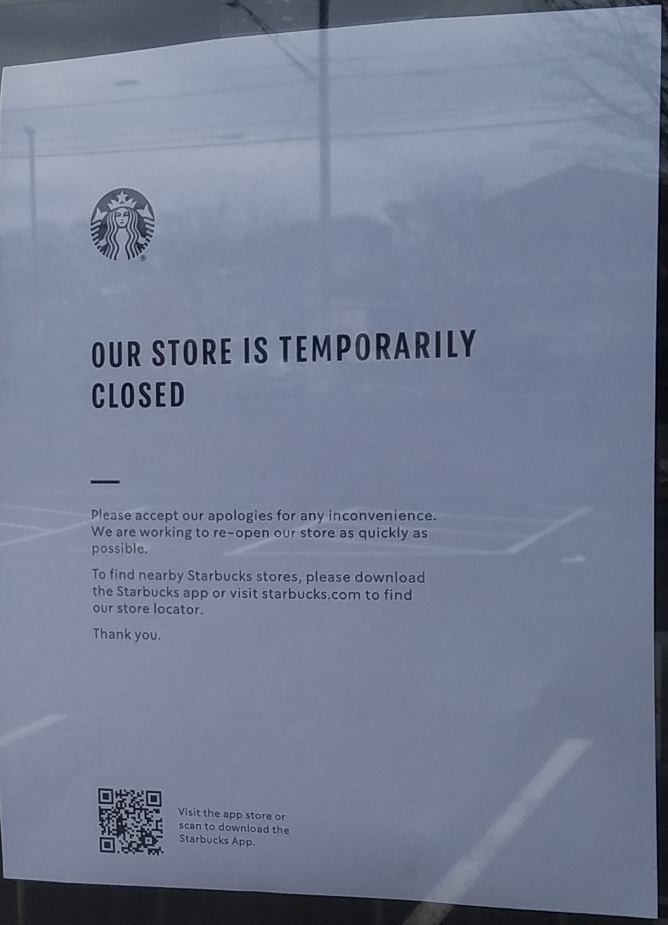 A standalone Starbucks that doesn't have a drive thru that was closed due to laws created to prevent the spread of the coronavirus